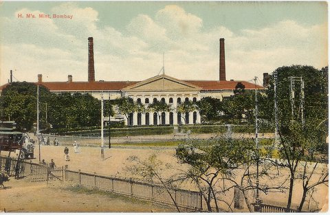 Govt of India Mint, Behind the RBI HQ. Mumbai